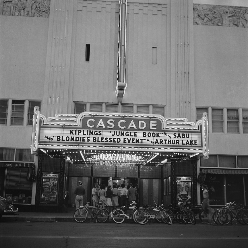 Motion picture show at the Cascade Theatre in Redding, California. Shasta County Title and other information from caption card. Transfer; United States. Office of War Information. Overseas Picture Division. Washington Division; 1944. More information about the FSA/OWI Collection is available at Film copy on SIS roll 15, frame 2354.